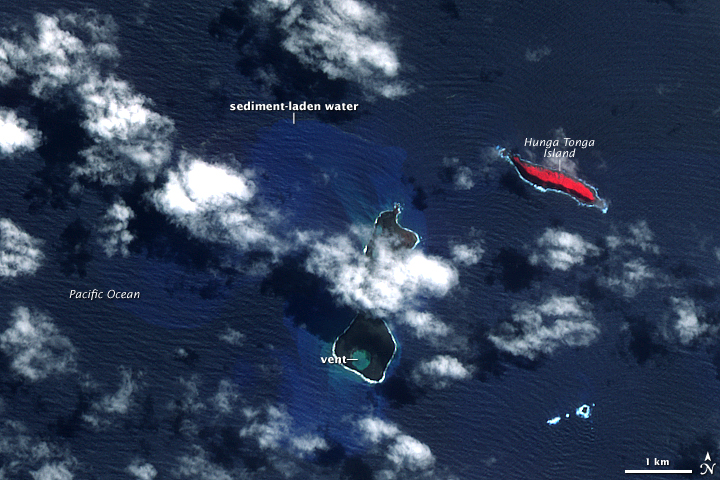 False-color image showing the effects of the eruption of Hunga Tonga-Hunga Haʻapai volcano in Tonga, March 26, 2009. The Advanced Spaceborne Thermal Emission and Reflection Radiometer (ASTER) on NASA's Terra satellite captured the image on March 25, 2009. The submerged vent has broken the surface of the Pacific Ocean and the new land is the dark mass south of Hunga Haʻapai. Clouds cover the space between the new land and Hunga Haʻapai. The vent itself is the nearly perfect circular hole near the southern edge of the new land. The ocean around the erupting volcano is bright blue, indicating ash, rock, and other volcanic debris. Plant-covered land is red. Note that Hunga Haʻapai is now colored black, indicating that plants on the island are now buried in ash or dead.